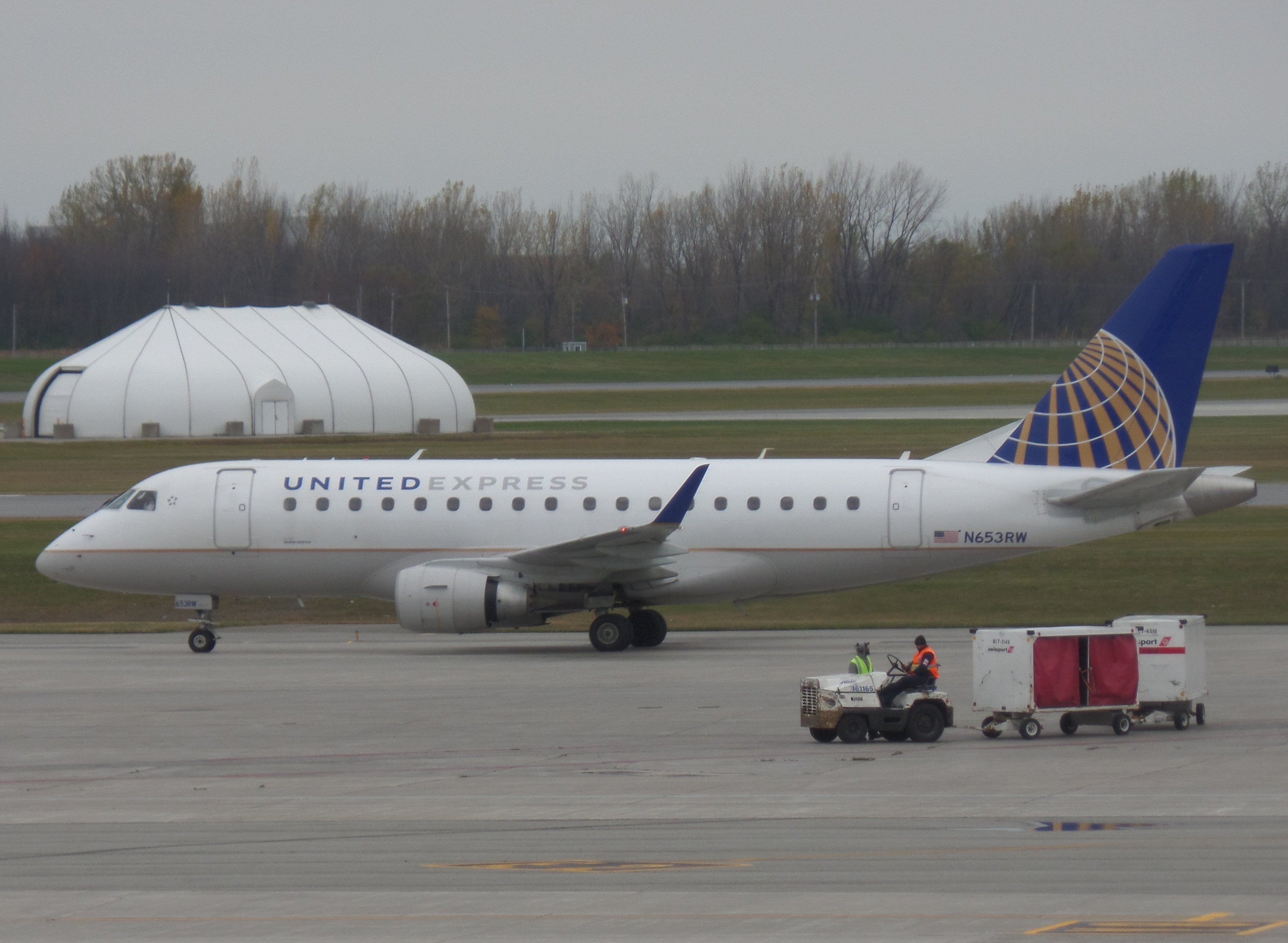 United Express (operated by Shuttle America) Embraer 170 N653RW at Montréal - Pierre Elliott Trudeau International Airport on October 25, 2014.